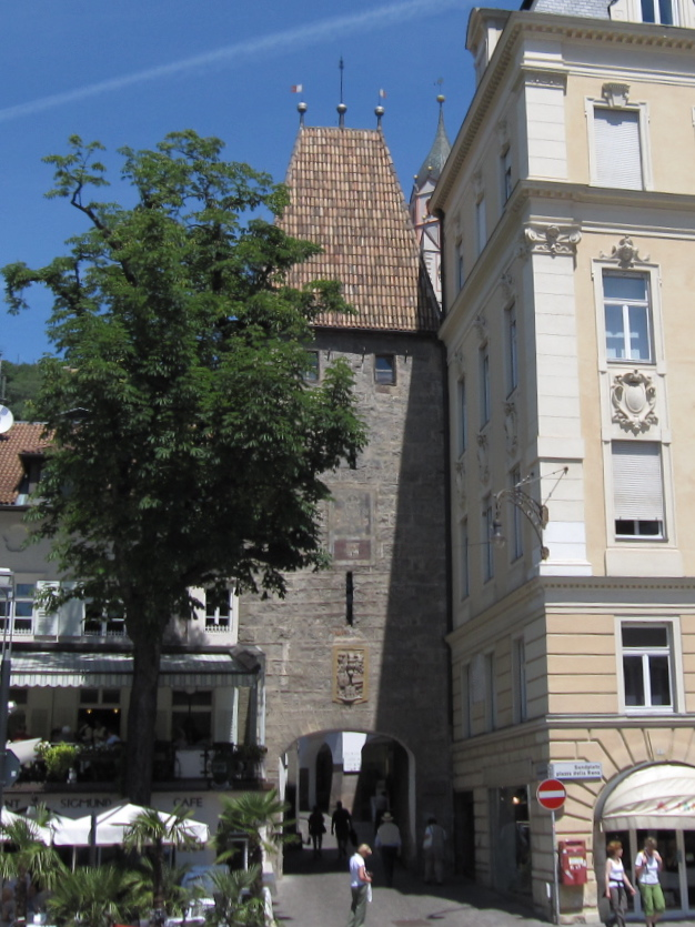 Bozner Tor in Meran, South Tyrol.